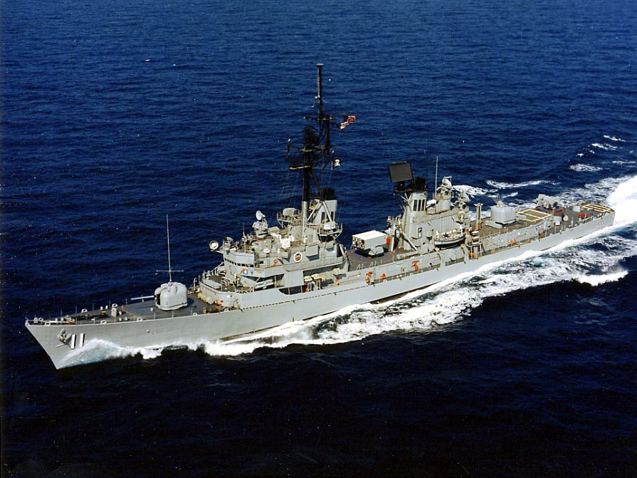 The U.S. Navy guided missile destroyer USS Sellers (DDG-11) underway at sea, circa the 1980s.